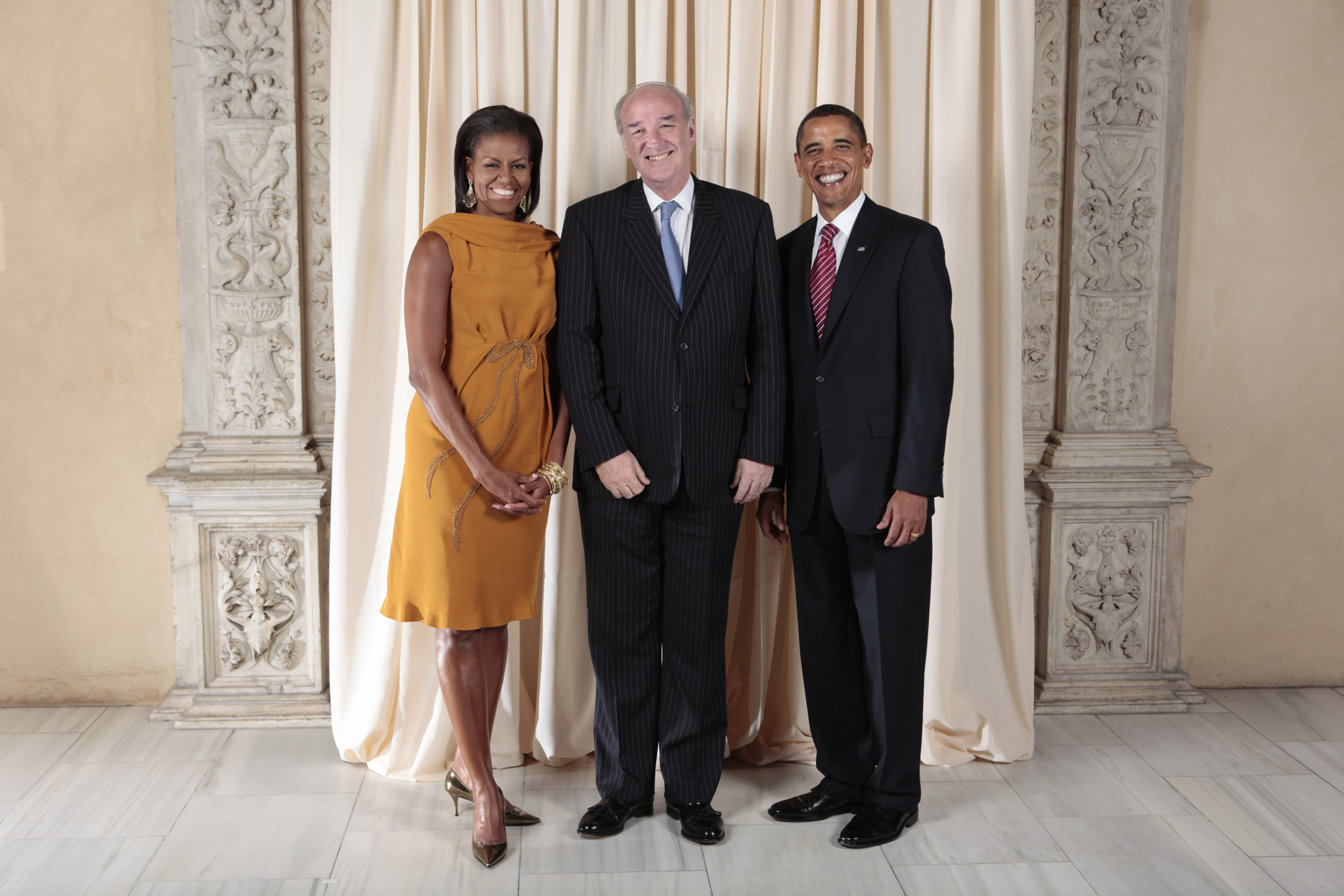 President Barack Obama and First Lady Michelle Obama pose for a photo during a reception at the Metropolitan Museum in New York with Jose Antonio Garcia-Belaunde of Peru.